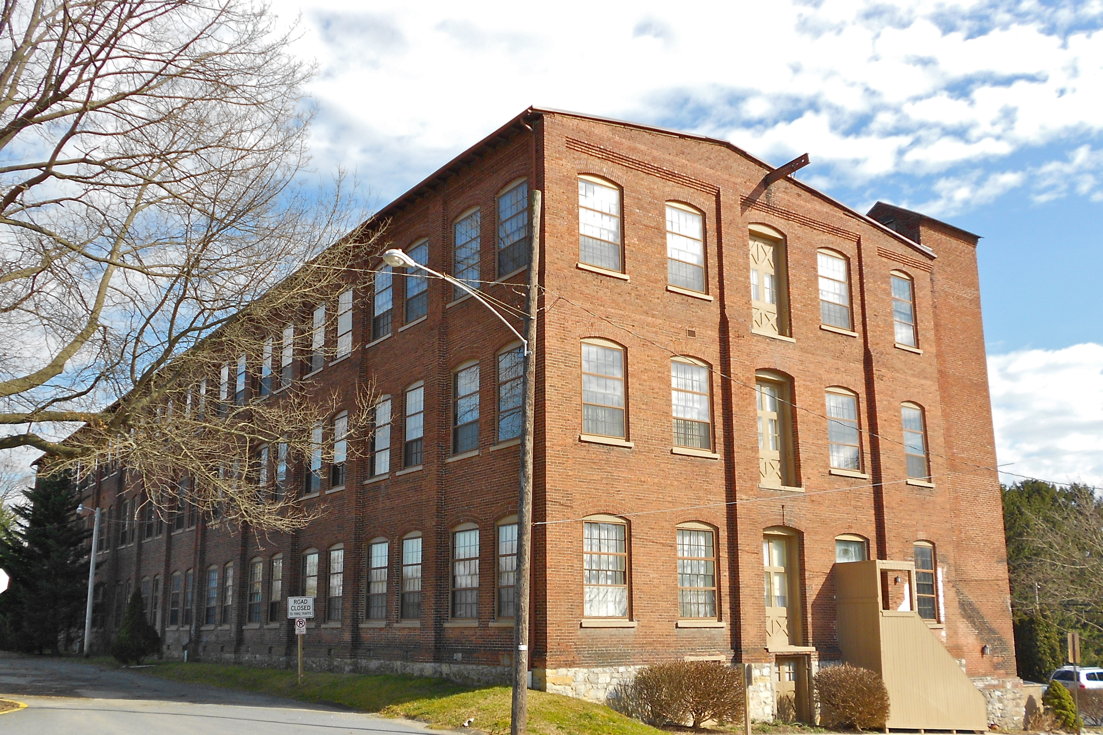 Ashley and Bailey Silk Mill on the NRHP since June 27, 1980 on East Walnut and Pine Streets, Marietta, Lancaster County, Pennsylvania. Be very careful to avoid confusion with another NRHP site "Ashley and Bailey COMPANY Silk Mill" which is about 20 miles west in York County.